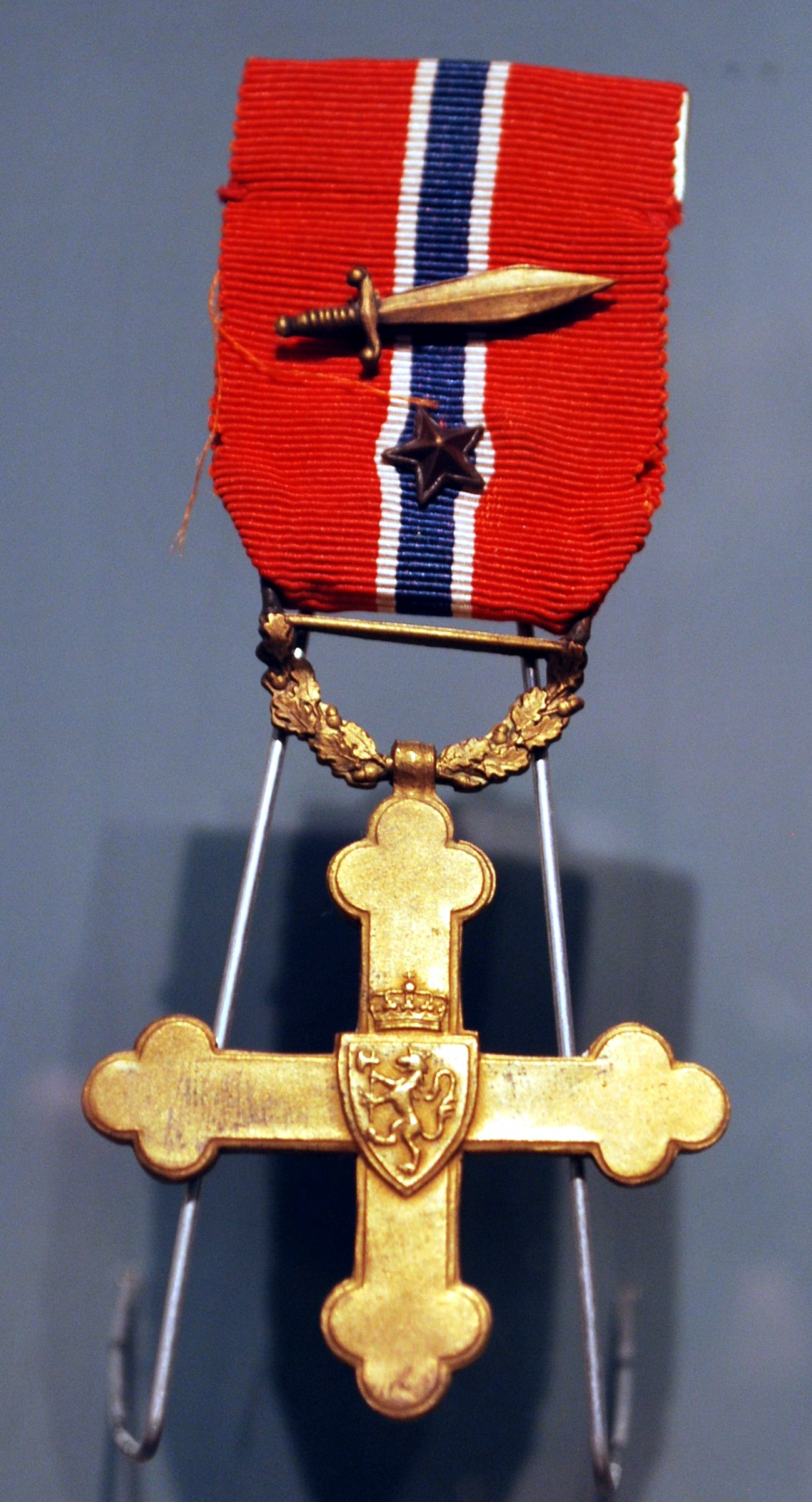 War cross of Leif A. Larsen (Shetlandslarsen), now in Nordsjøfartmuseet i Telavåg.